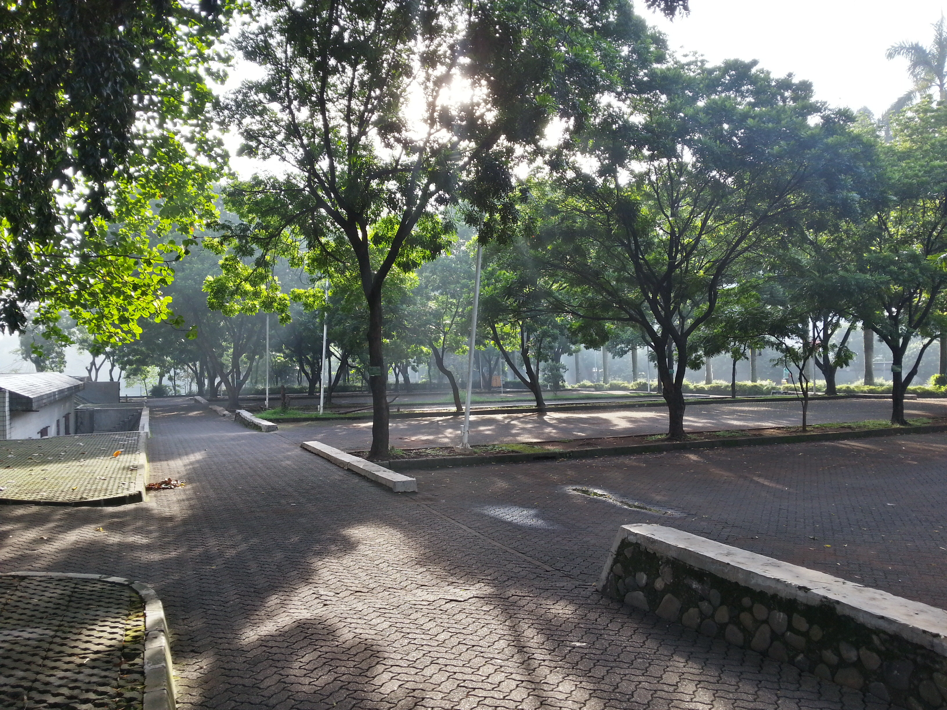 It's captured near Balairung, the biggest auditorium in Universitas Indonesia. Many main events are held here.